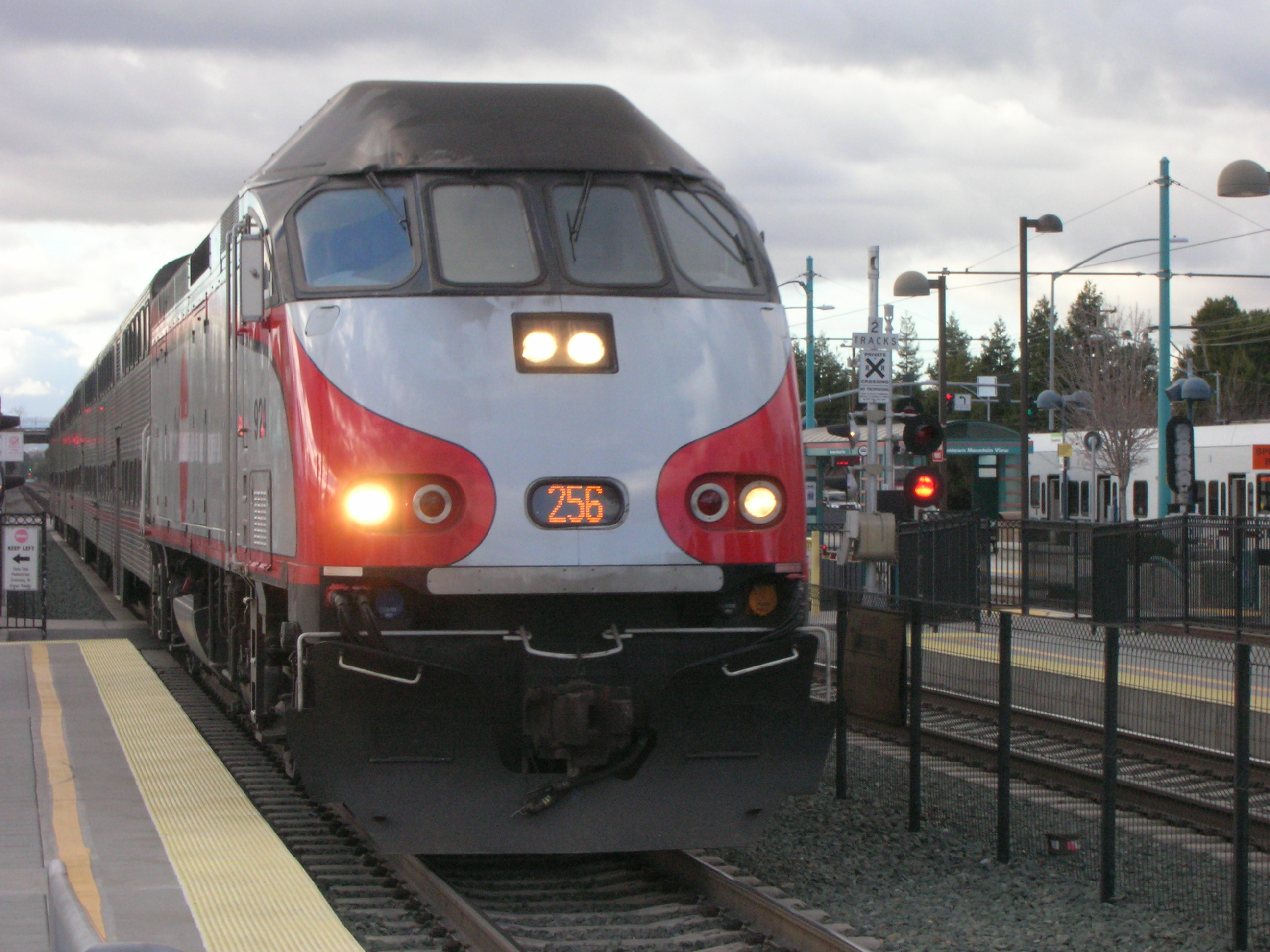 Southbound Caltrain entering Moutain View Station